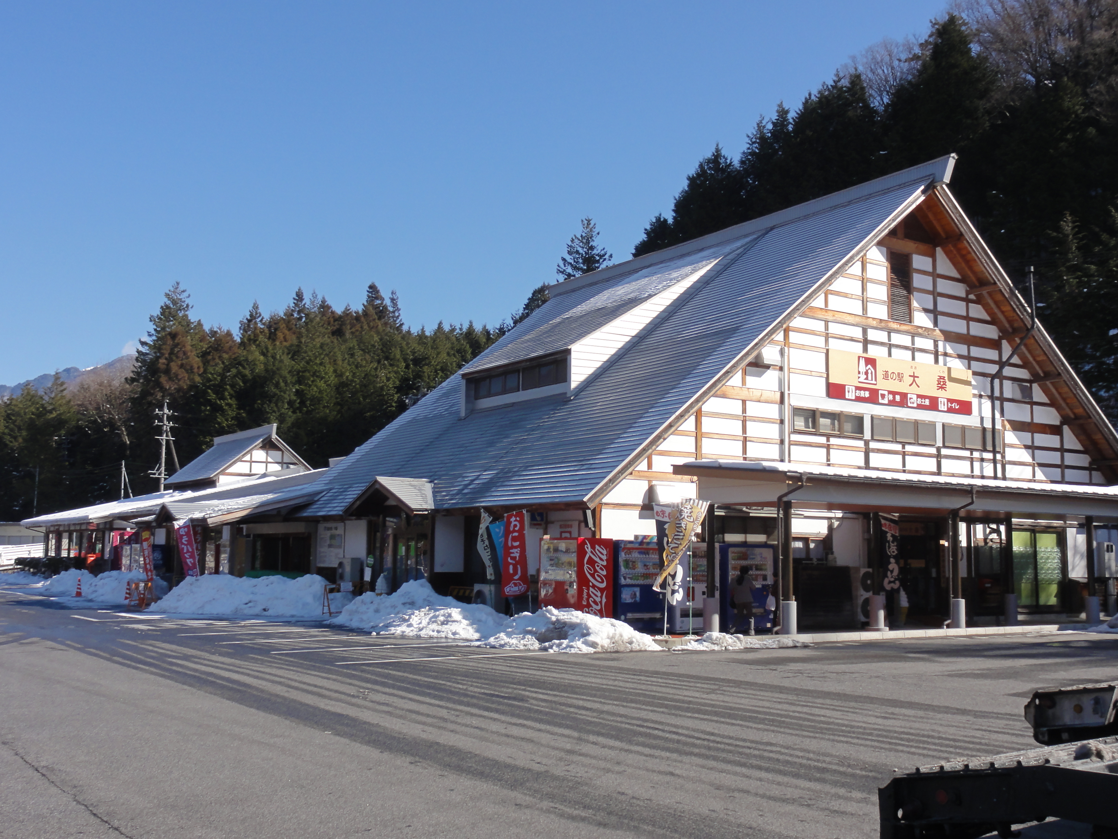 Roadside Station Okuwa,Nagano Pref., Japan